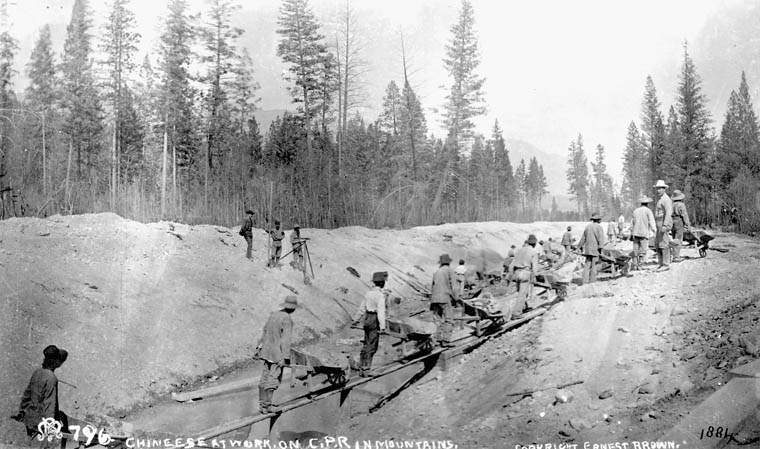 Title / Titre : Chinese at work on C.P.R. (Canadian Pacific Railway) in Mountains, 1884 / Chinois travaillant dans les montagnes pour le Chemin de fer du Canadien Pacifique, 1884 Creator(s) / Créateur(s) : Ernest Brown Date(s) : 1884 Reference No. / Numéro de référence : MIKAN 3194432 Location / Lieu : British Columbia / Colombie-Britannique Credit / Mention de source : Boorne & May. Library and Archives Canada, C-006686B / Boorne & May. Bibliothèque et Archives Canada, C-006686B